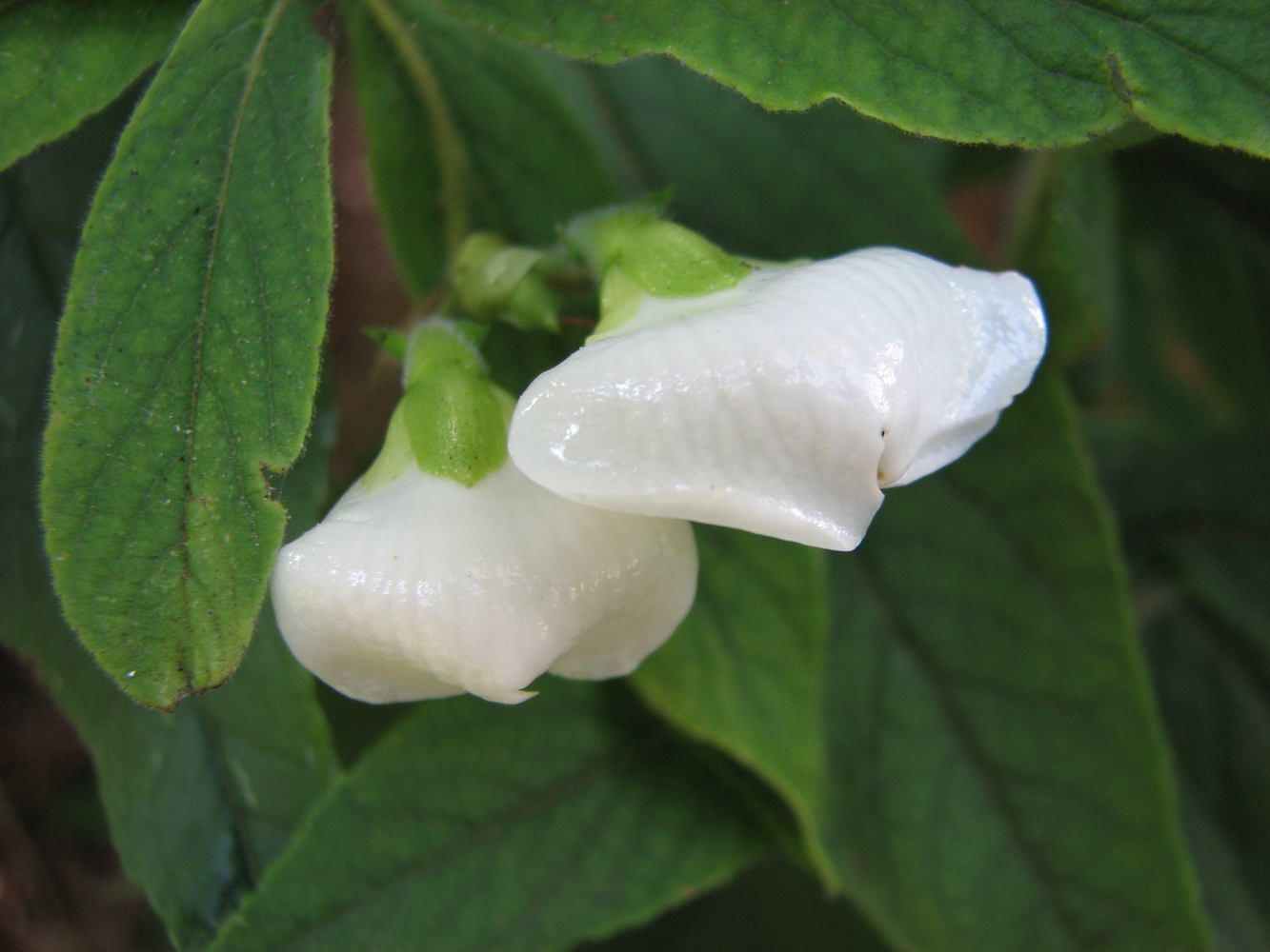 Bowkeria verticillata (cultivated, labelled) Geelong Botanic Gardens, Victoria, Australia